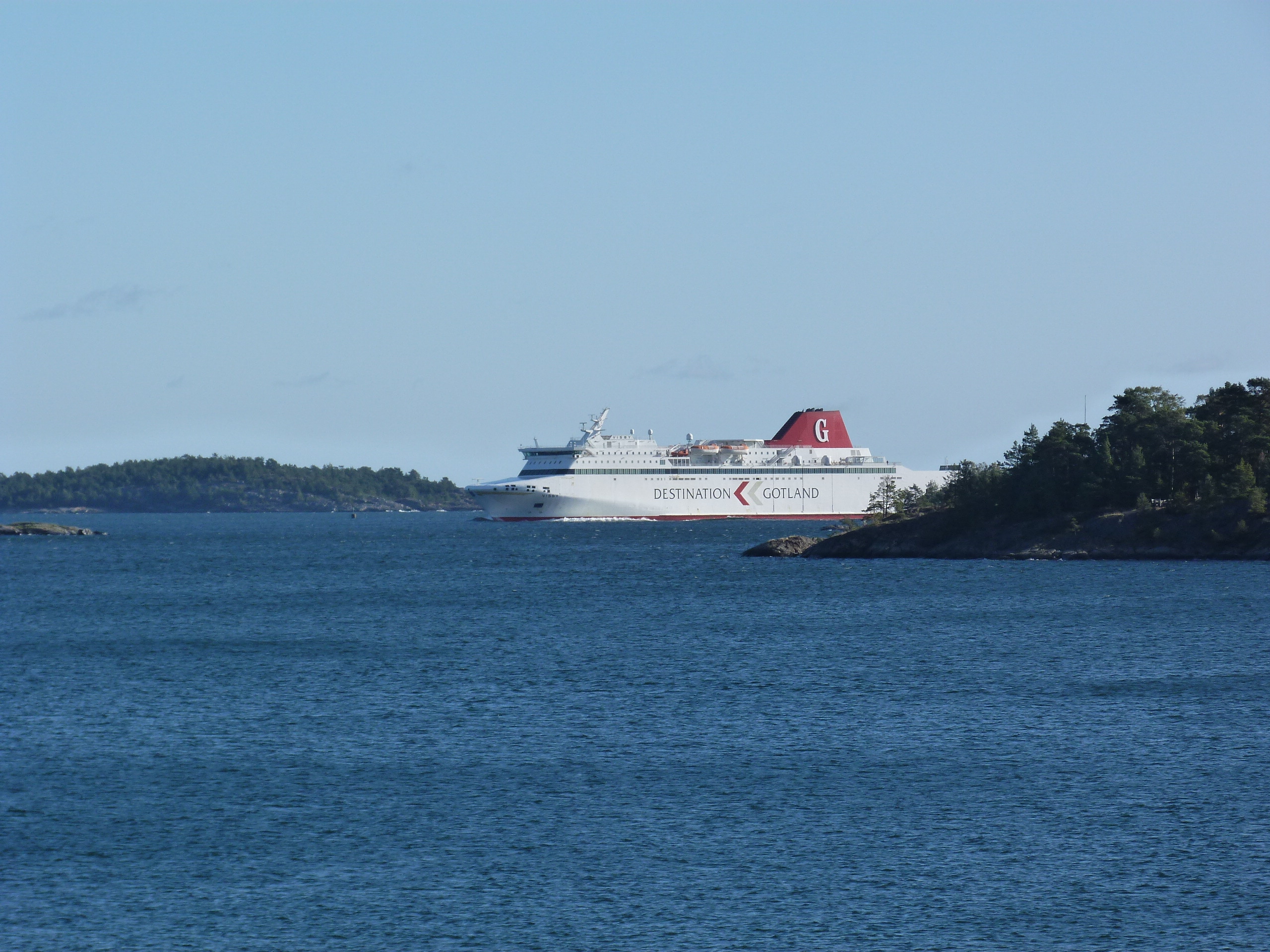 M/S Visby on her way into the harbor of Nynäshamn